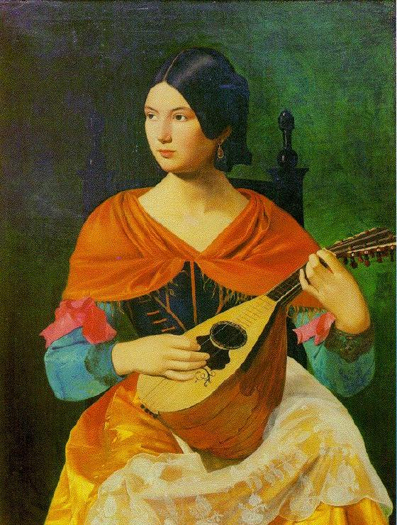 Oil on canvas painting by Vjekoslav Karas of a woman from Rome playing a mandolin, titled in Croation Rimljanka s lutnjom [translation: A romance with a lullabies].[1] This has also been called a lute, but the instrument has a mandolin's 8-string peghead. The painting is part of the collections of the Croatian History Museum in Zagreb.[1]